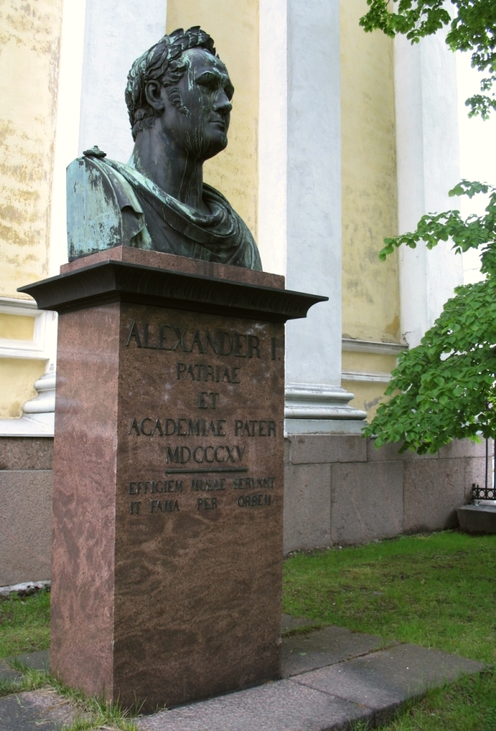 Statue of Alexander I from park of National Library of Finland, Helsinki.